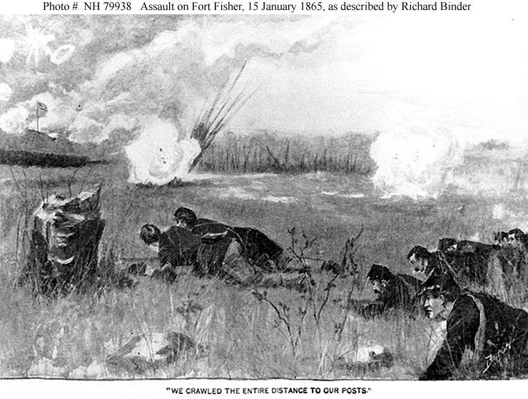 Assault on Fort Fisher - 15 January 1865 - as described by Richard Binder. Halftone reproduction of and artwork by Bacon, depicting a scene described by Sergeant Richard Binder, USMC, of the advance of the Navy sharpshooters' unit under Lieutenant Williams, during the Sailors' and Marines' assault on Fort Fisher, North Carolina, 15 January 1865. Binder and other surviving members of this party were awarded the Medal of Honor.